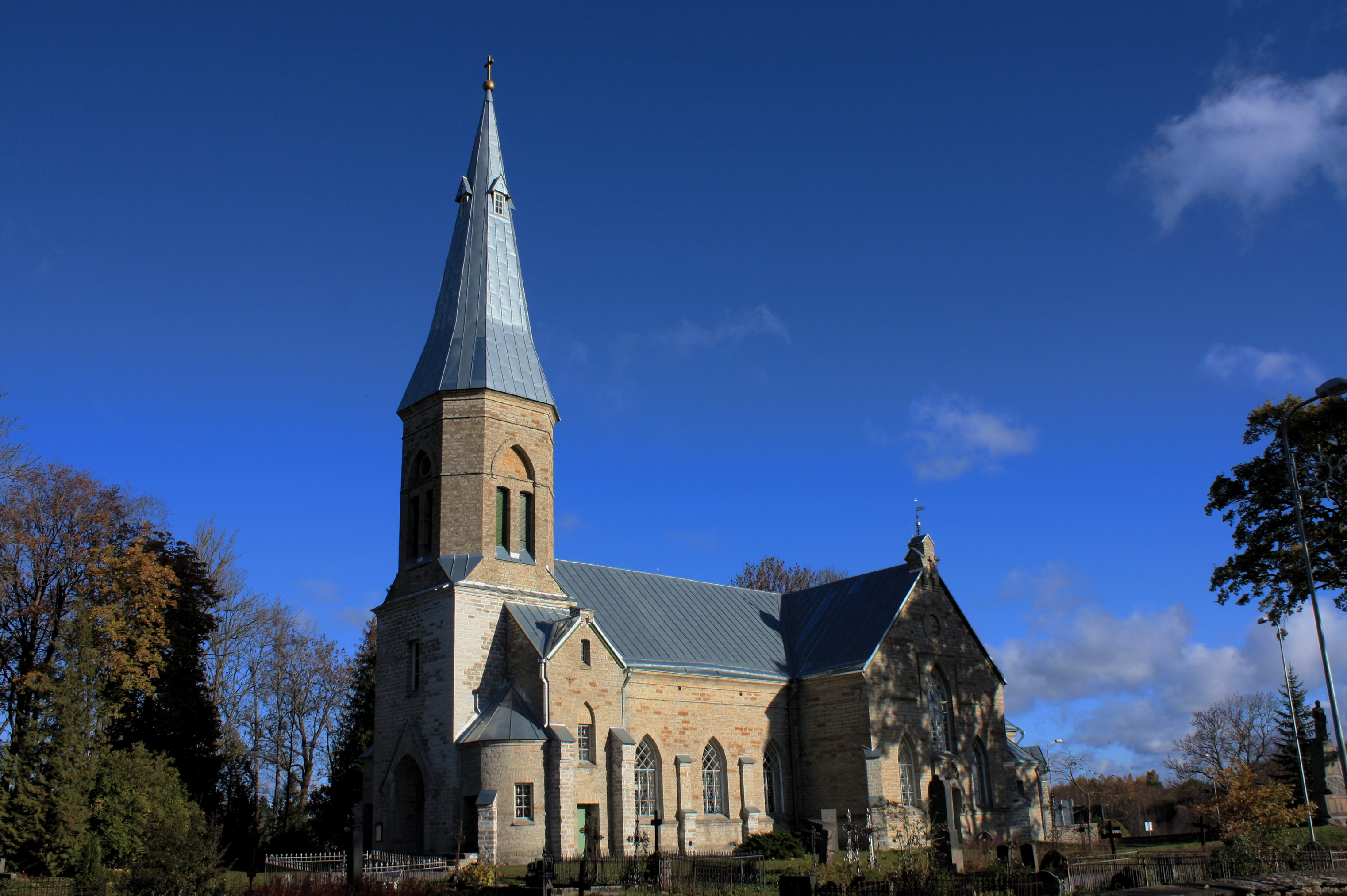 Juri Church